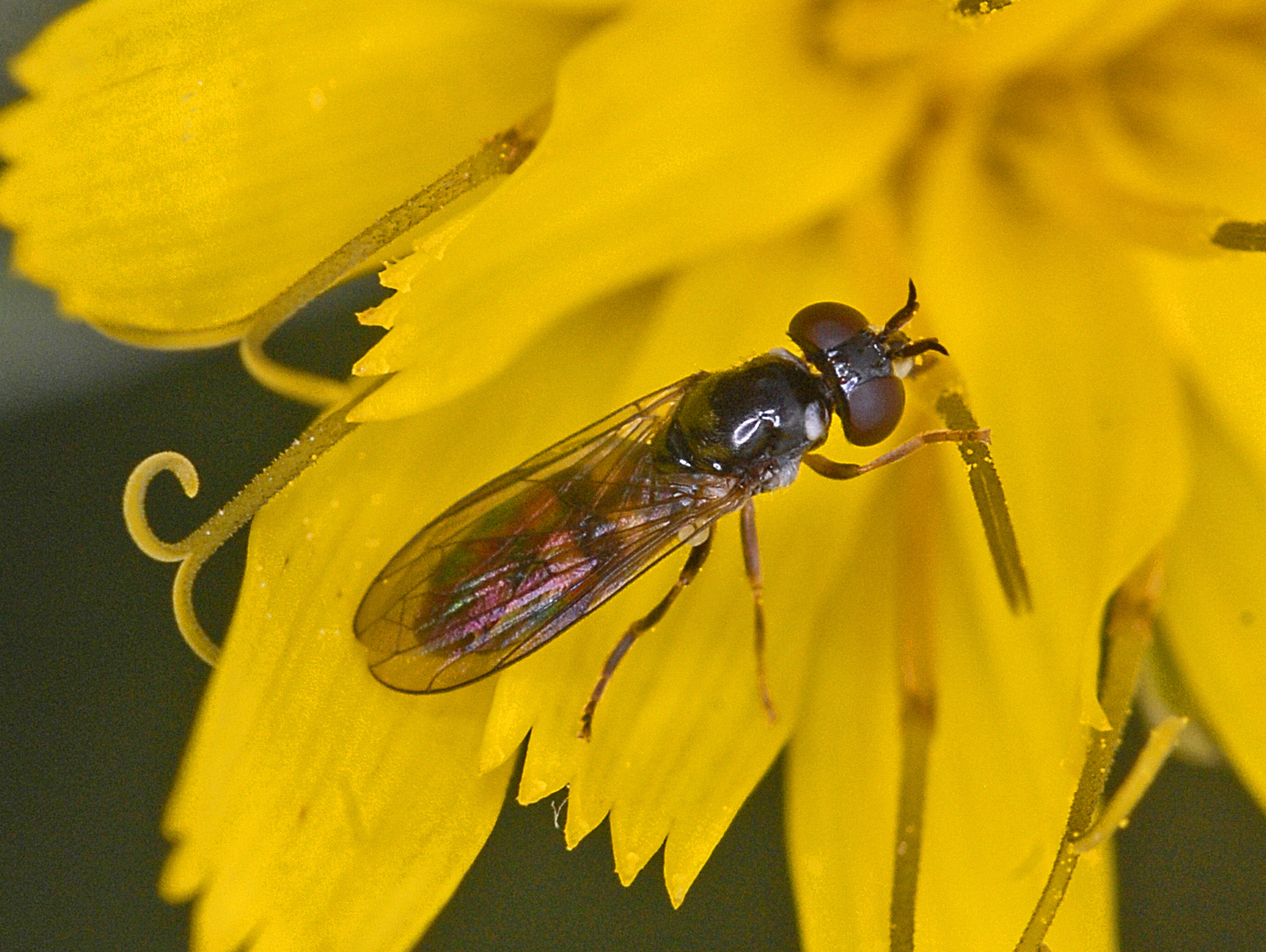 Pelecocera tricincta, female. Piani di Praglia, Genova, Italy